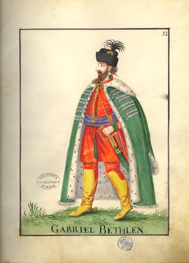 From Trachten-Kabinett von Siebenbürgen album. Drawn in 1729, based on the 1692 watercolours of an artist from Graz Given to the Romanian Academy by Baron Ludovic Czekelius of Rosenfeld. Gabriel Bethlen